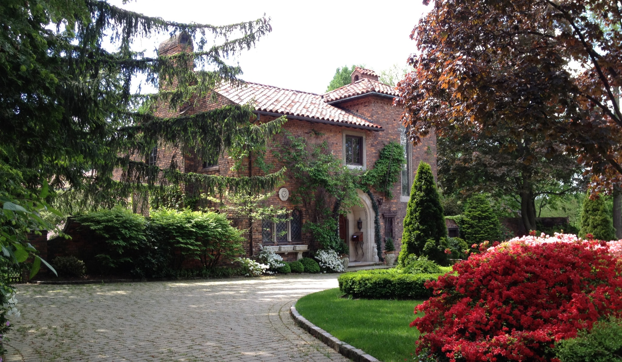 Mediterranean, Tuscan architecture